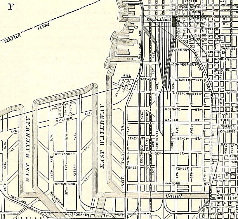 Detail of a 1911 map of the city of Seattle, Washington, 1911. This detail focuses on the city's industrial district.